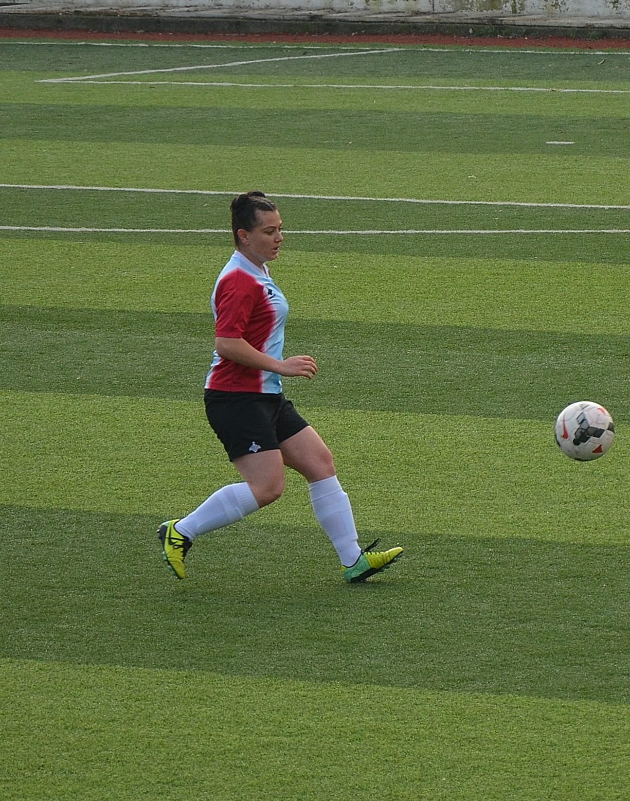 Sibel Nohut playing for Trabzon İdmanocağı in the 2014-15 season